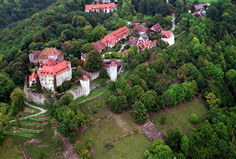 Castle Schloss Stetten, 900 years old